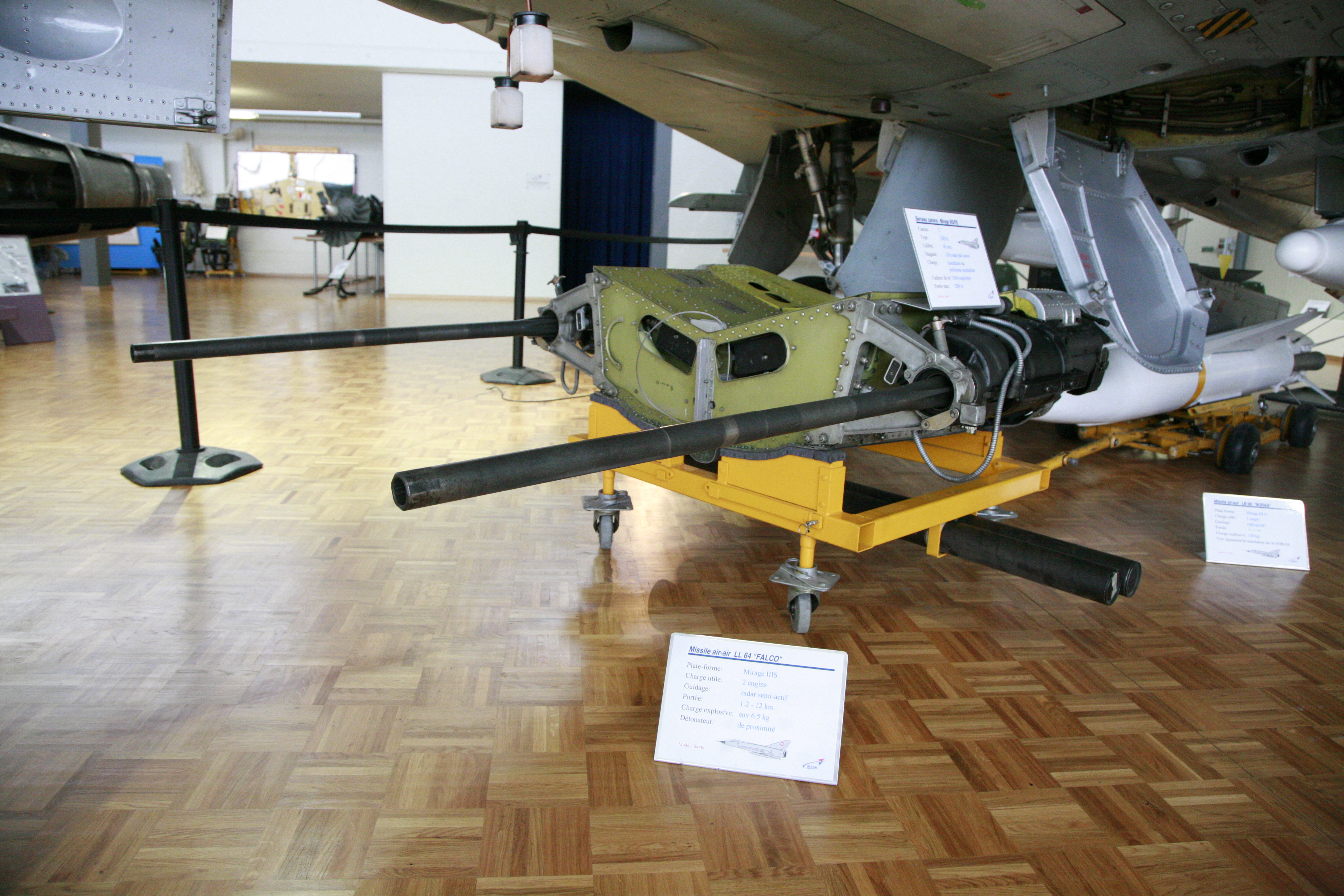 DEFA cannon